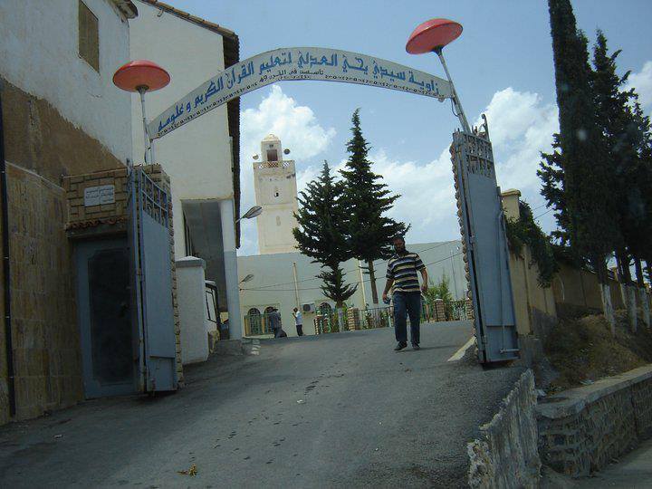 zawia